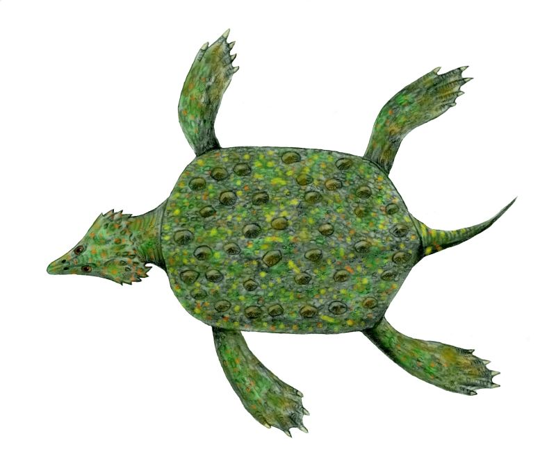 Placochelys a Placodont from the Late Triassic of Europe, pencil drawing